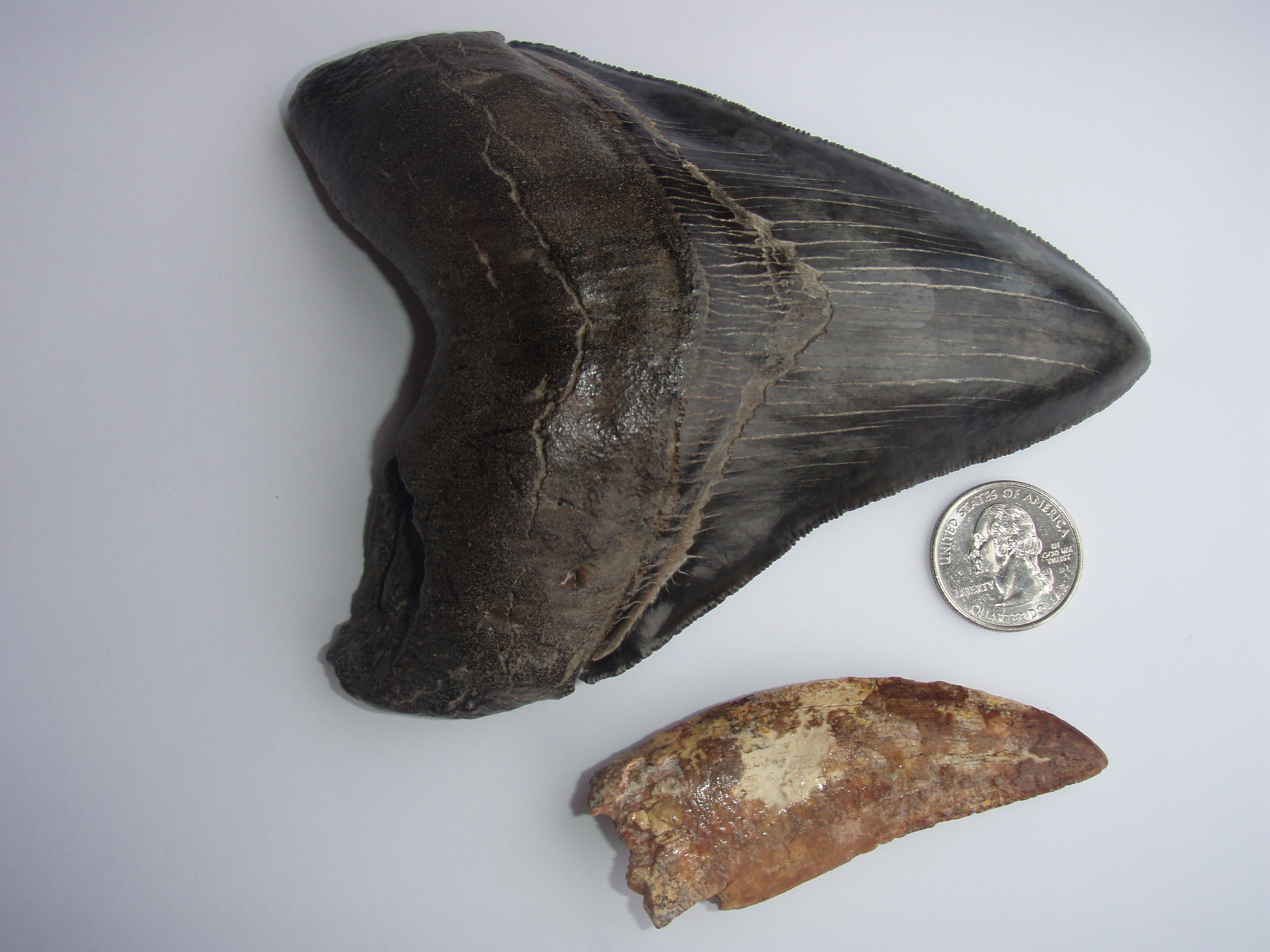 Carcharodontosaurus tooth, which was found in Sahara Desert and Megalodon tooth